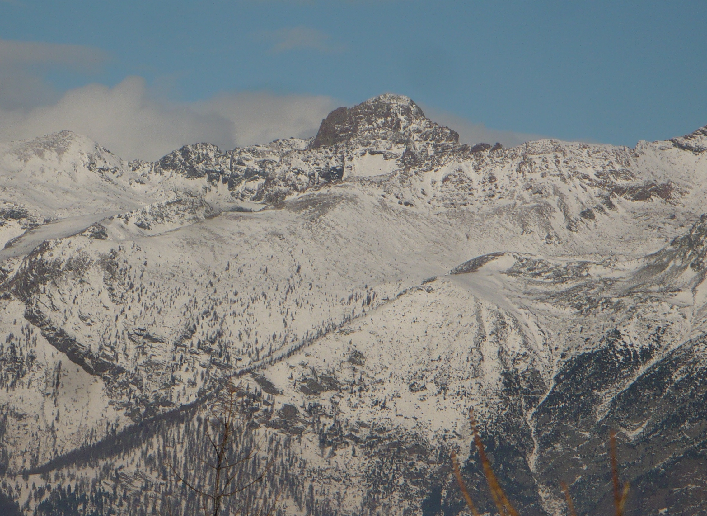 Punta Cristalliera - Cottian Alps - Province of Turin - Piedmont - Italy